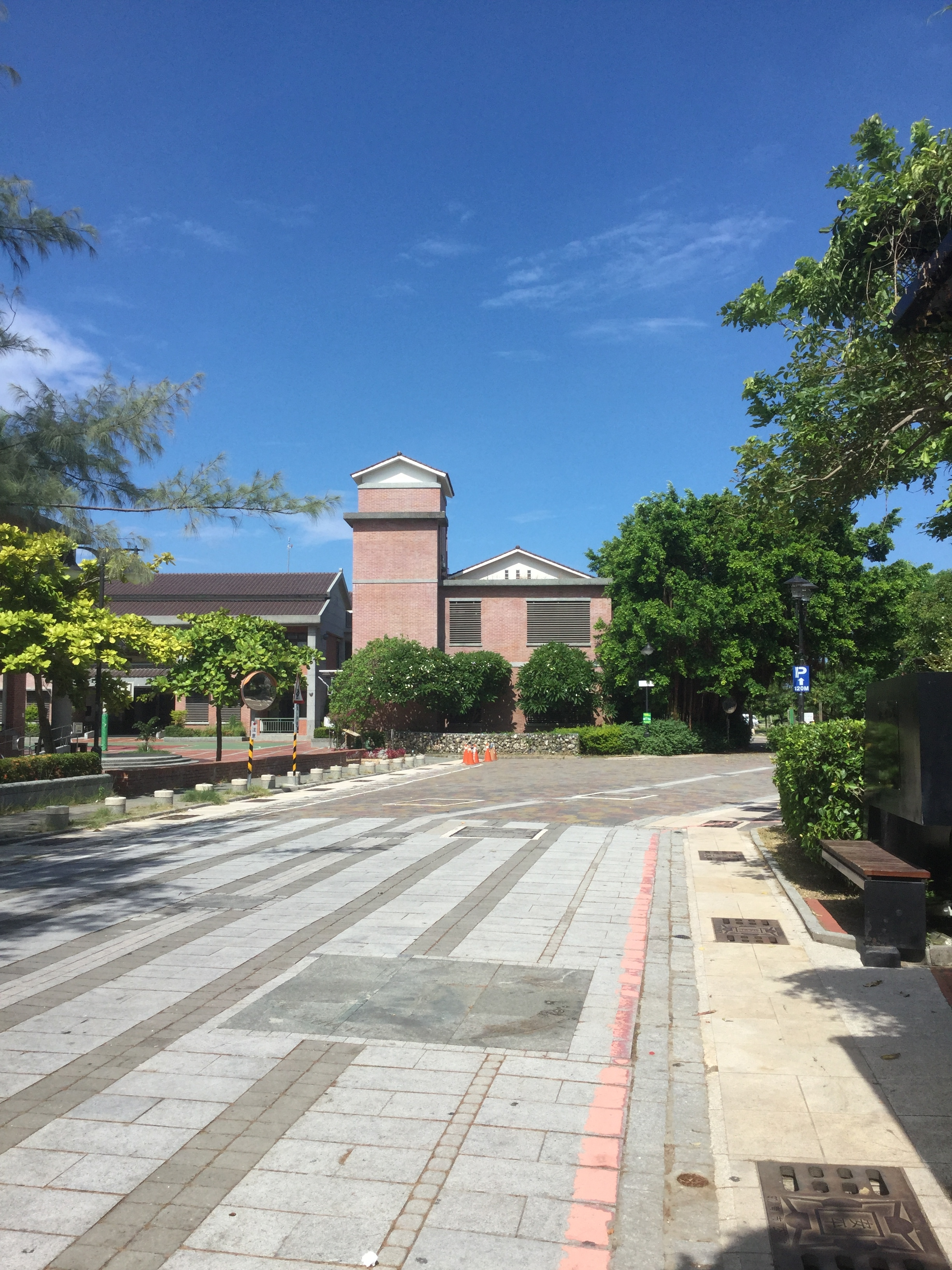 Tainan Municipal Simen Elementary School, Anping District